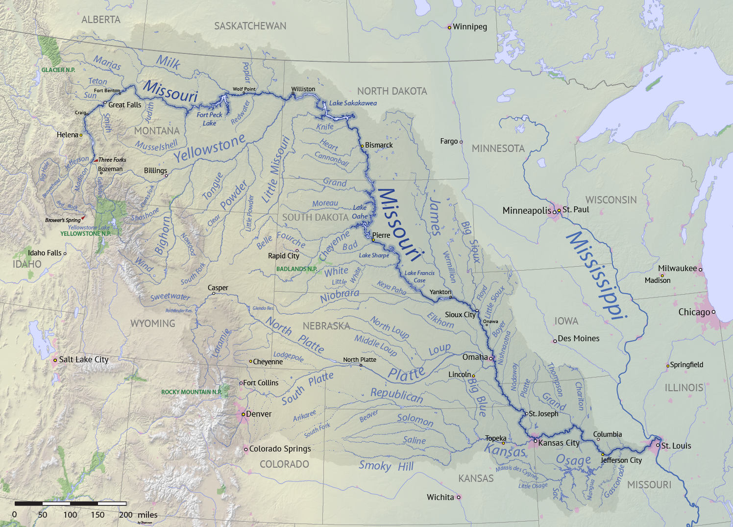 Map of the Missouri River drainage basin in the US and Canada. made using USGS and Natural Earth data. Replacement for File:Missouririvermap.jpg.